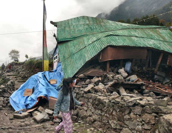 Broken House at Chaurikharka,Nepal